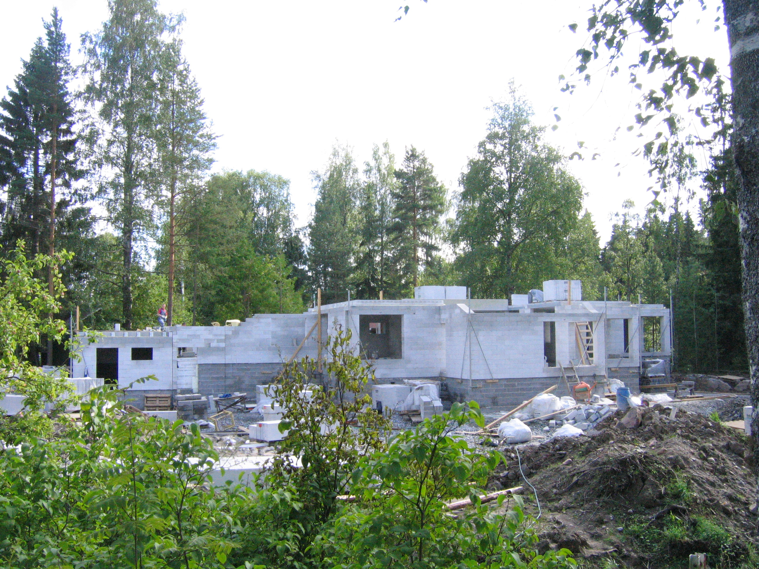 Rakennusvaiheessa oleva Siporex-talo Kuopiossa